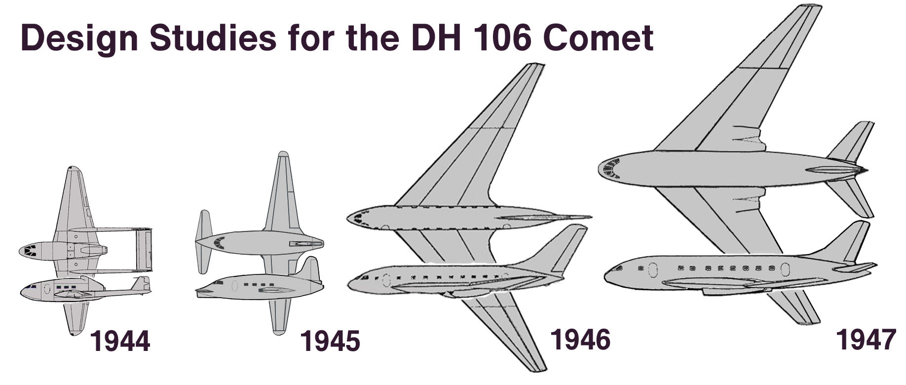 Four design studies developed by de Havilland Aircraft during the development of the DH 106 Comet, the world's first jet-powered airliner.